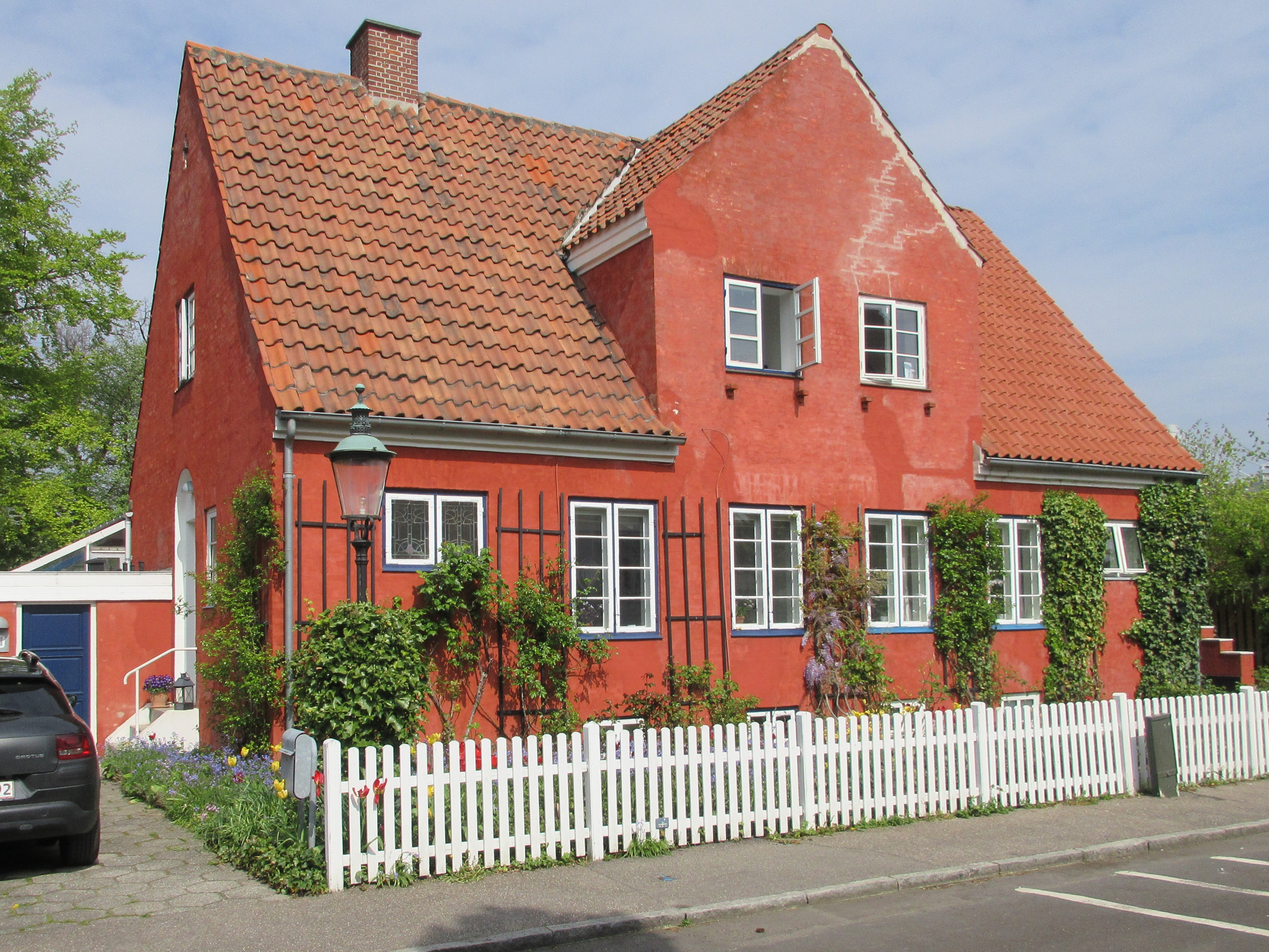 Frederiksberg Kommunale Funktionærers Boligforening